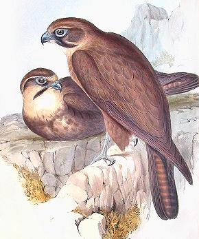 Falco berigora - Brown falcon